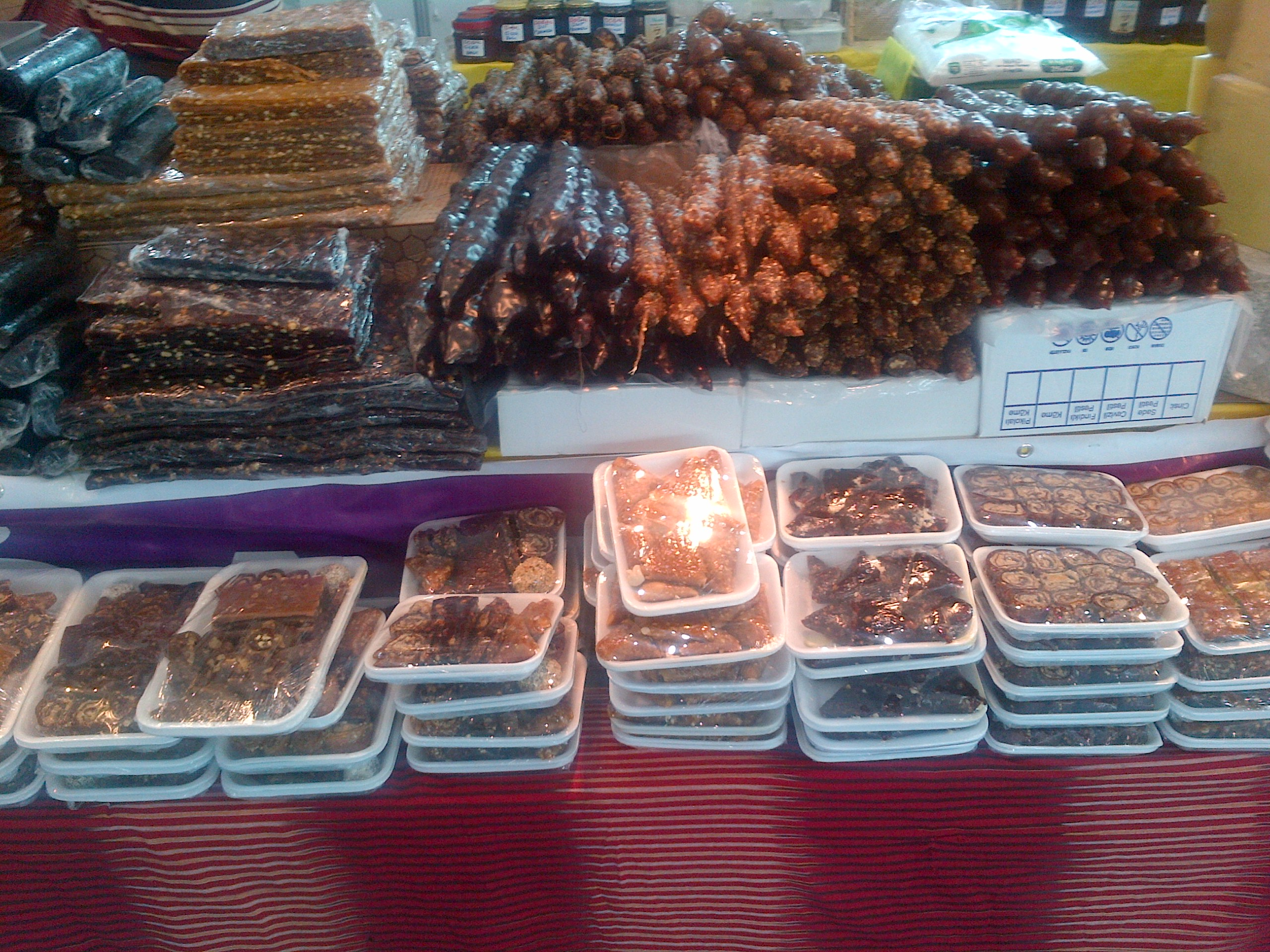 Cevizli sucuk (upper right), Pestil (upper left) and other Turkish delights.